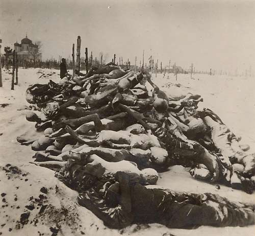 Famine in Russia 1921 Piled up before the local cemetary, hundreds of corpses.